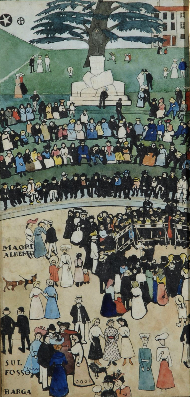 Alberto Magri - Sul Fosso